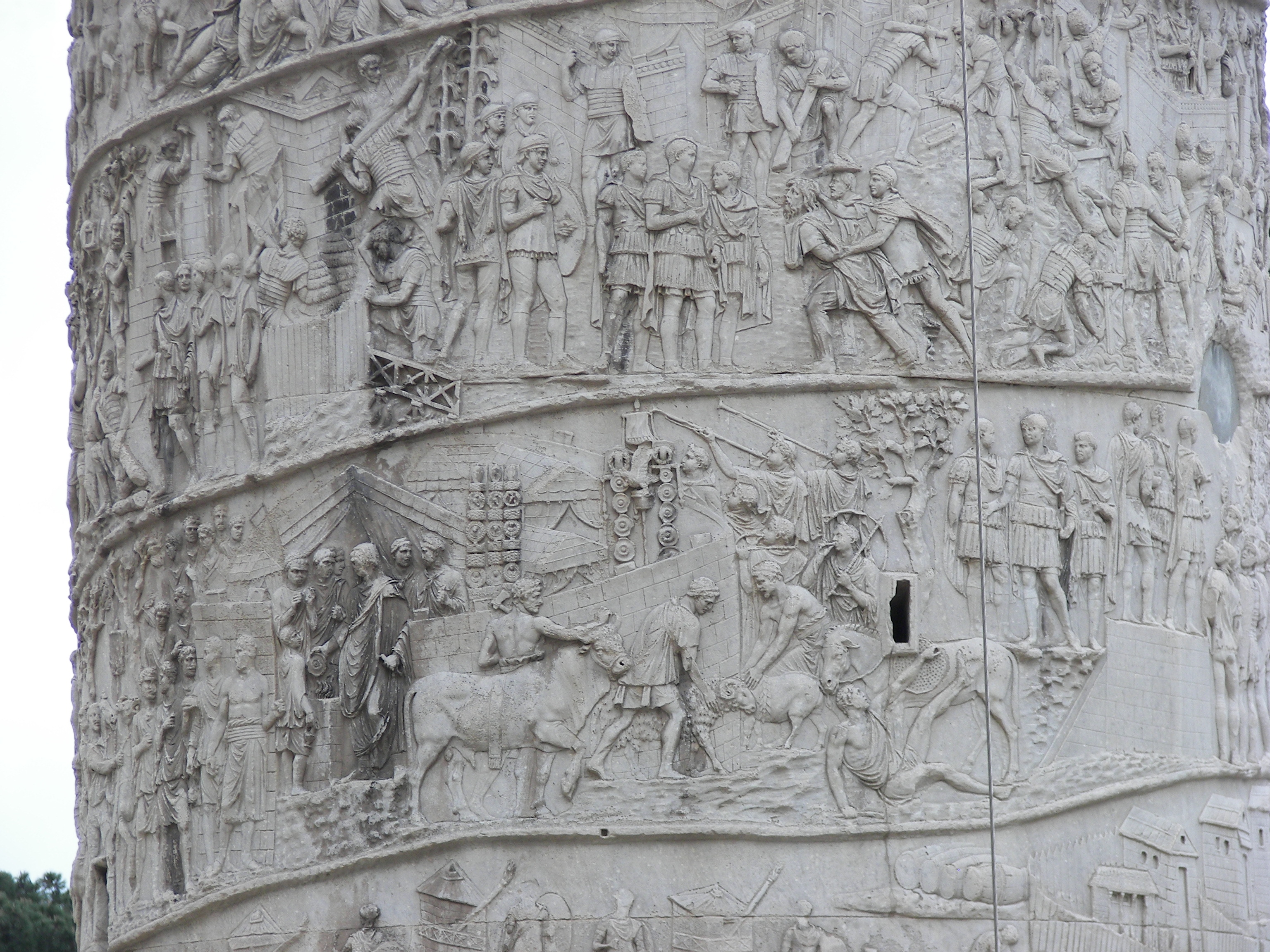 Reliefs on the Columna Traiana in Rome.